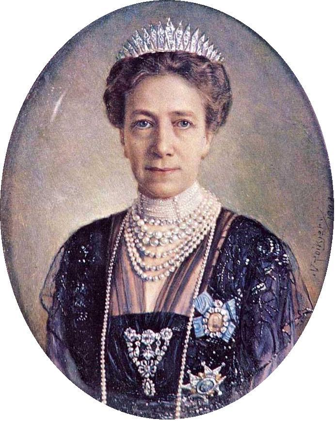 Queen Viktoria of Sweden (1862-1930)